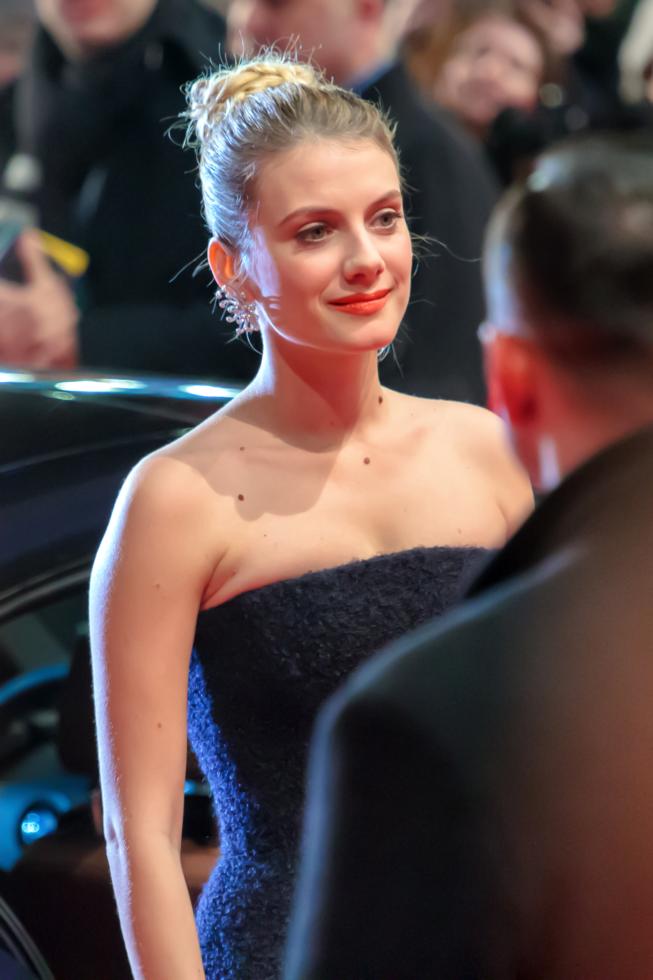 Mélanie Laurent - Berlinale - 2013